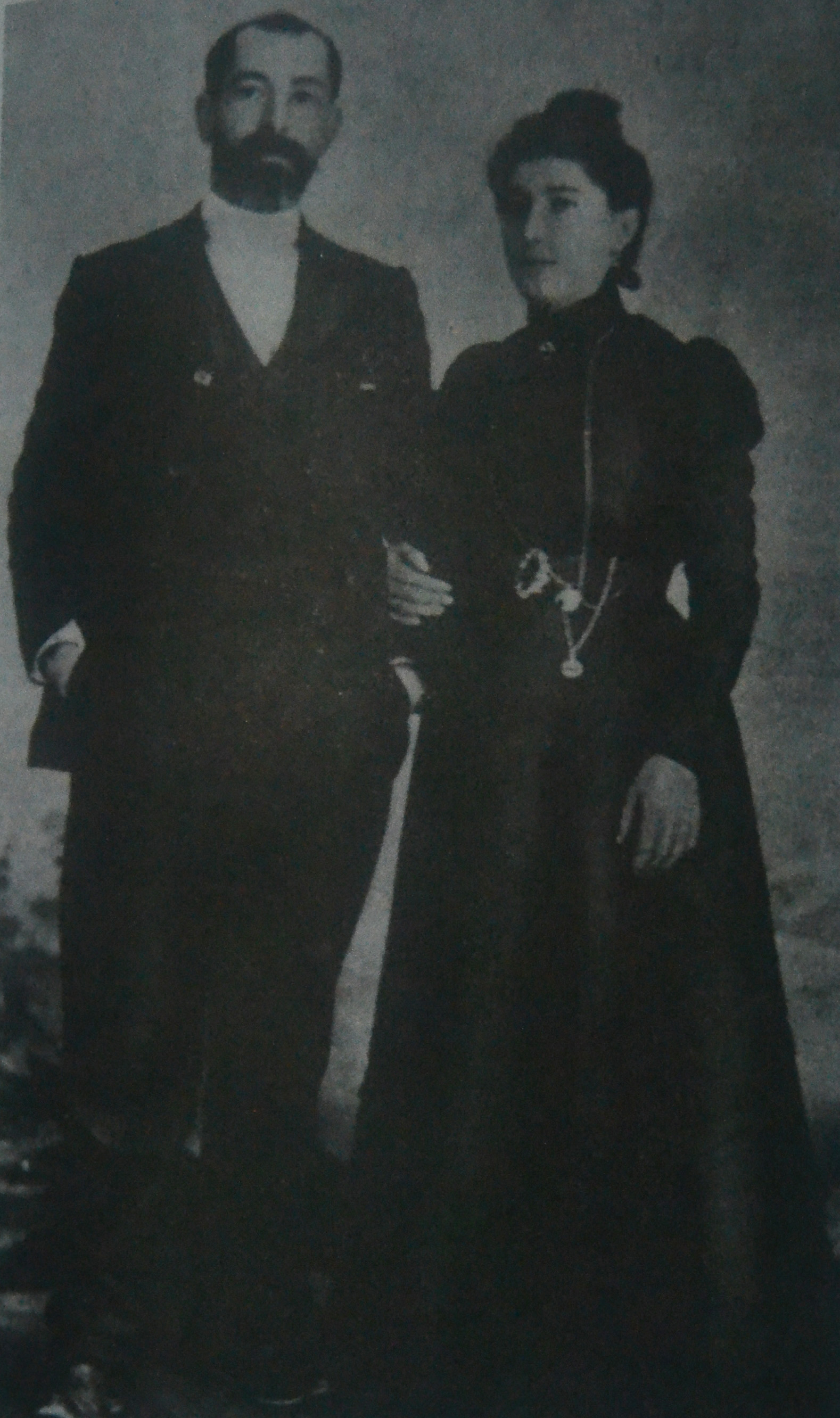 Sabin Arana Goiri and Nikolasa Atxika-Allende Iturri (Photo betwen 1898-1903)